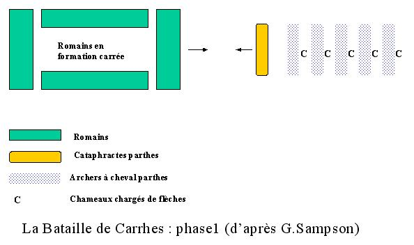 First phase of the Battle of Carrhae, 53 BCE.